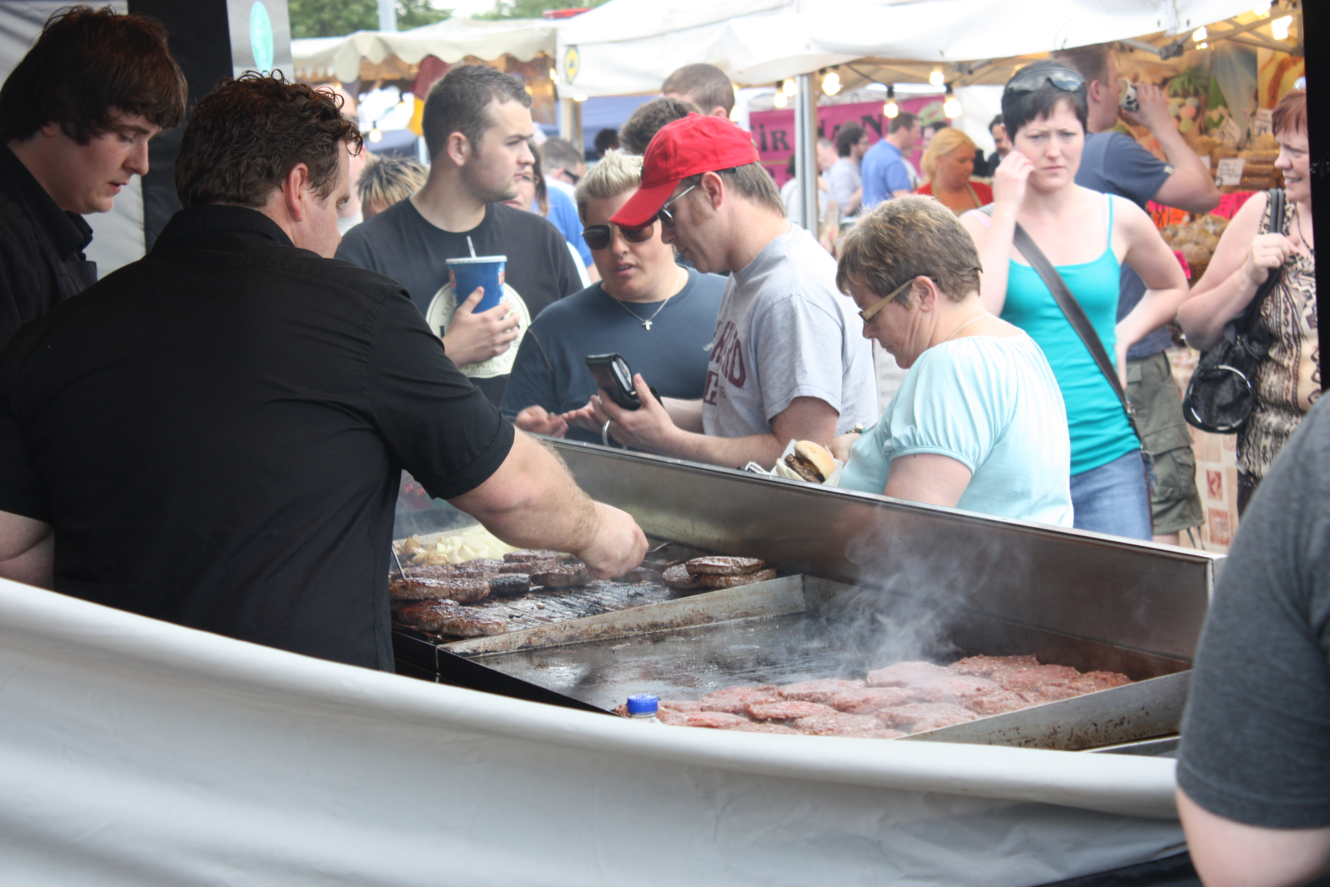 Belfast Titanic Maritime Festival, Queen's Quay, Belfast, Northern Ireland, June 2010